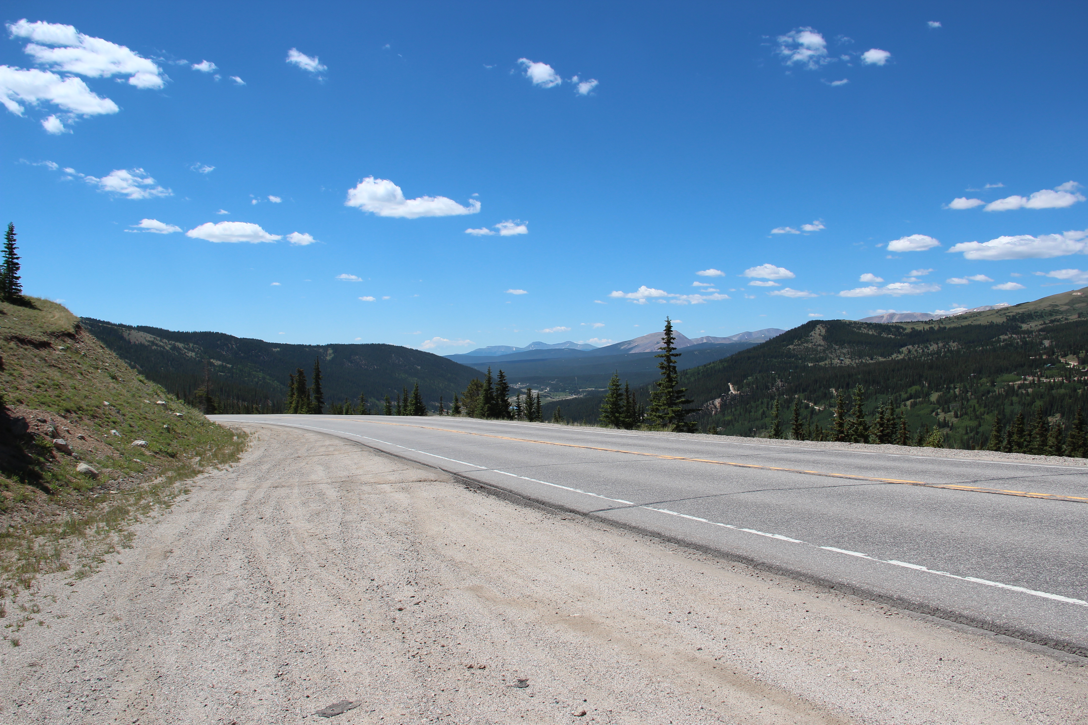 Colorado State Highway 9 near Hoosier Pass, July 2016